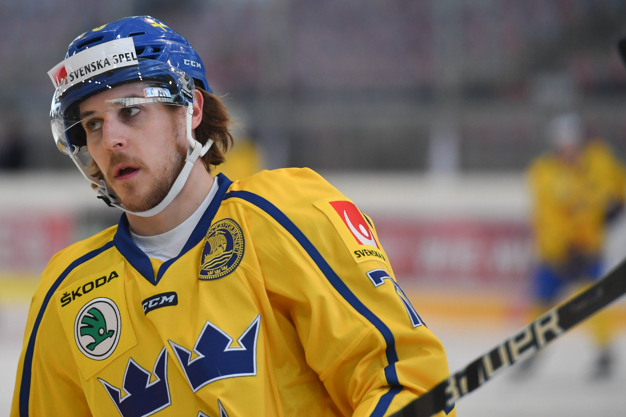 6/4/2017, Vienna, Austria, Sport, Ice Hockey, Friendly match Austria vs Sweden.